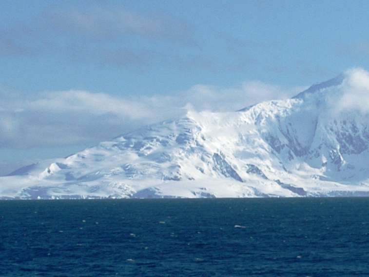 Organa Peak, Smith Island, South Shetland Islands. Derivative work, fragment of the photo of Smith Island, Antarctica, taken from deck of R/V Lawrence M. Gould by Cfrohlich, Cliff Frohlich, Univ. Texas Austin